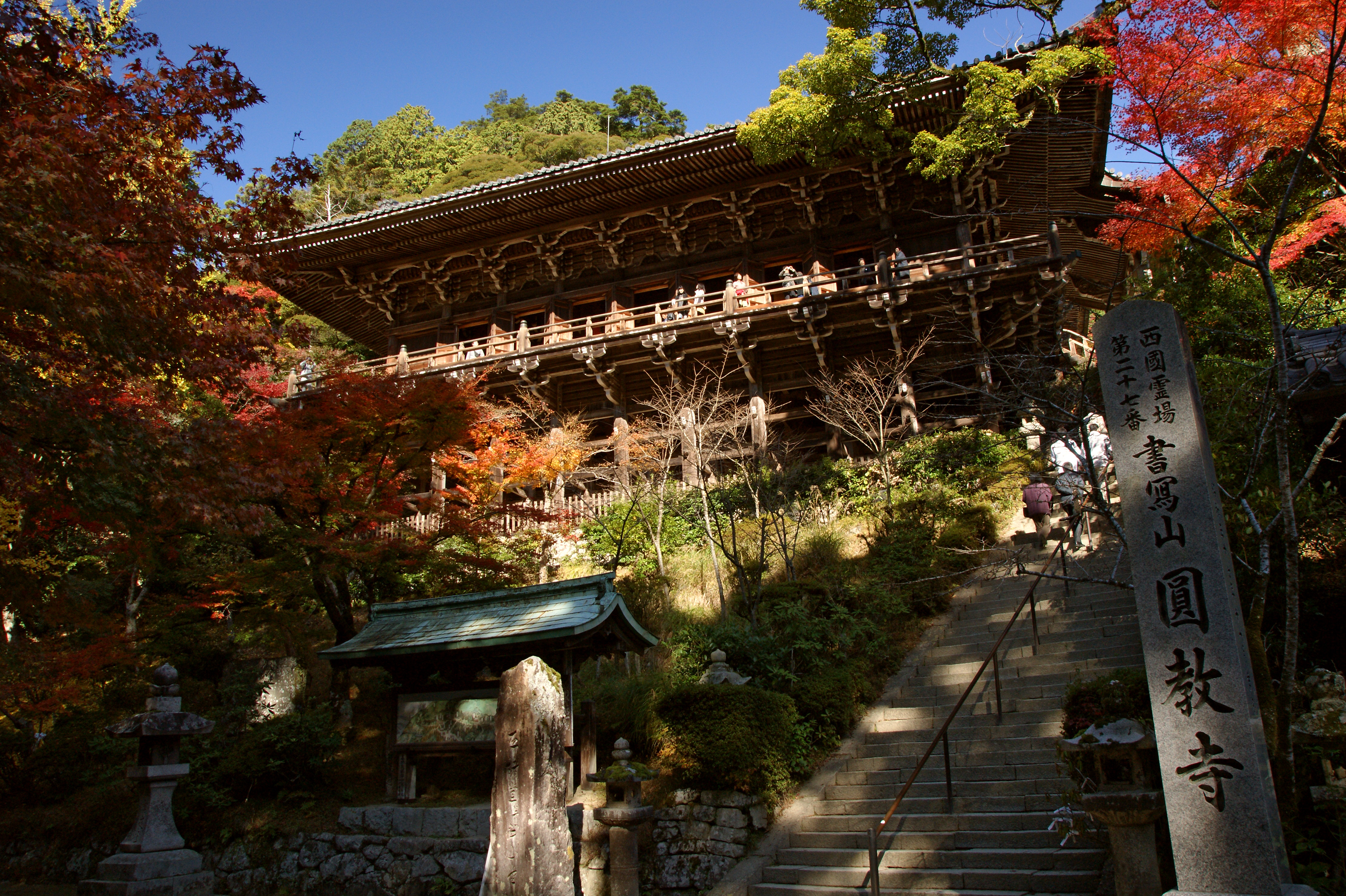 Engyoji, Himeji, Hyogo prefecture, Japan